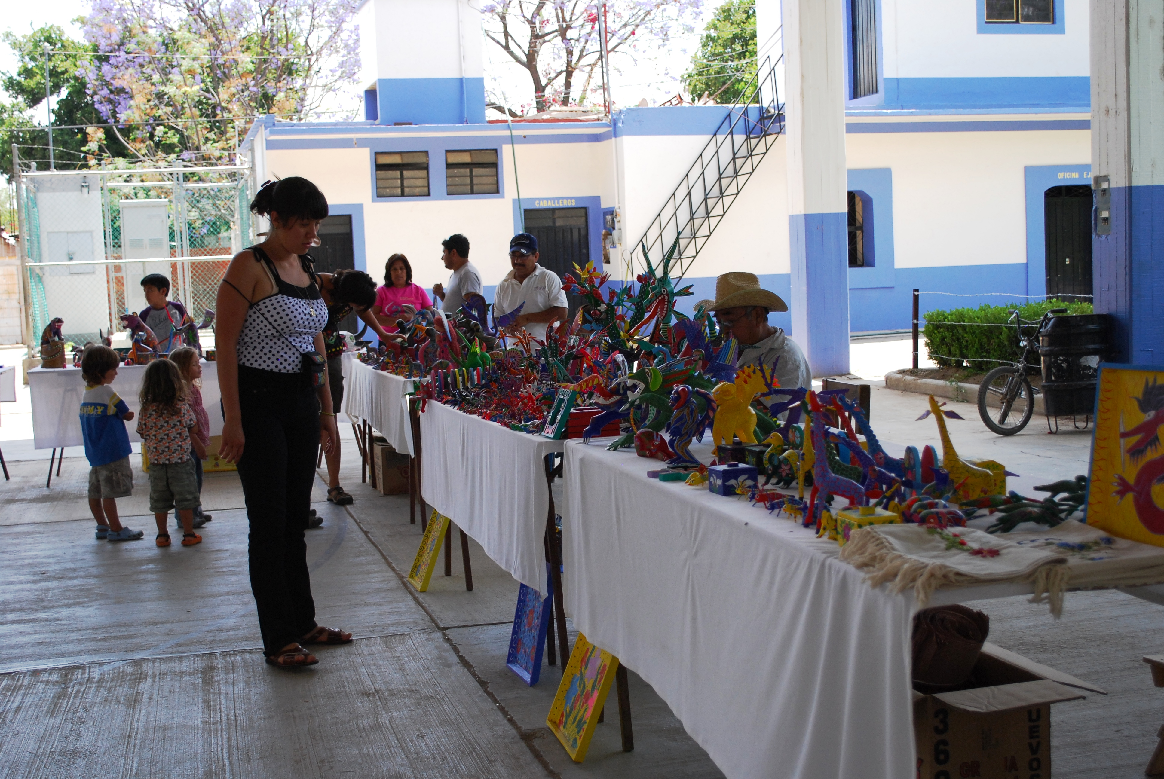 Woman looking at alebrijes for sale in San Martin Tilcajete, Oaxaca, Mexico